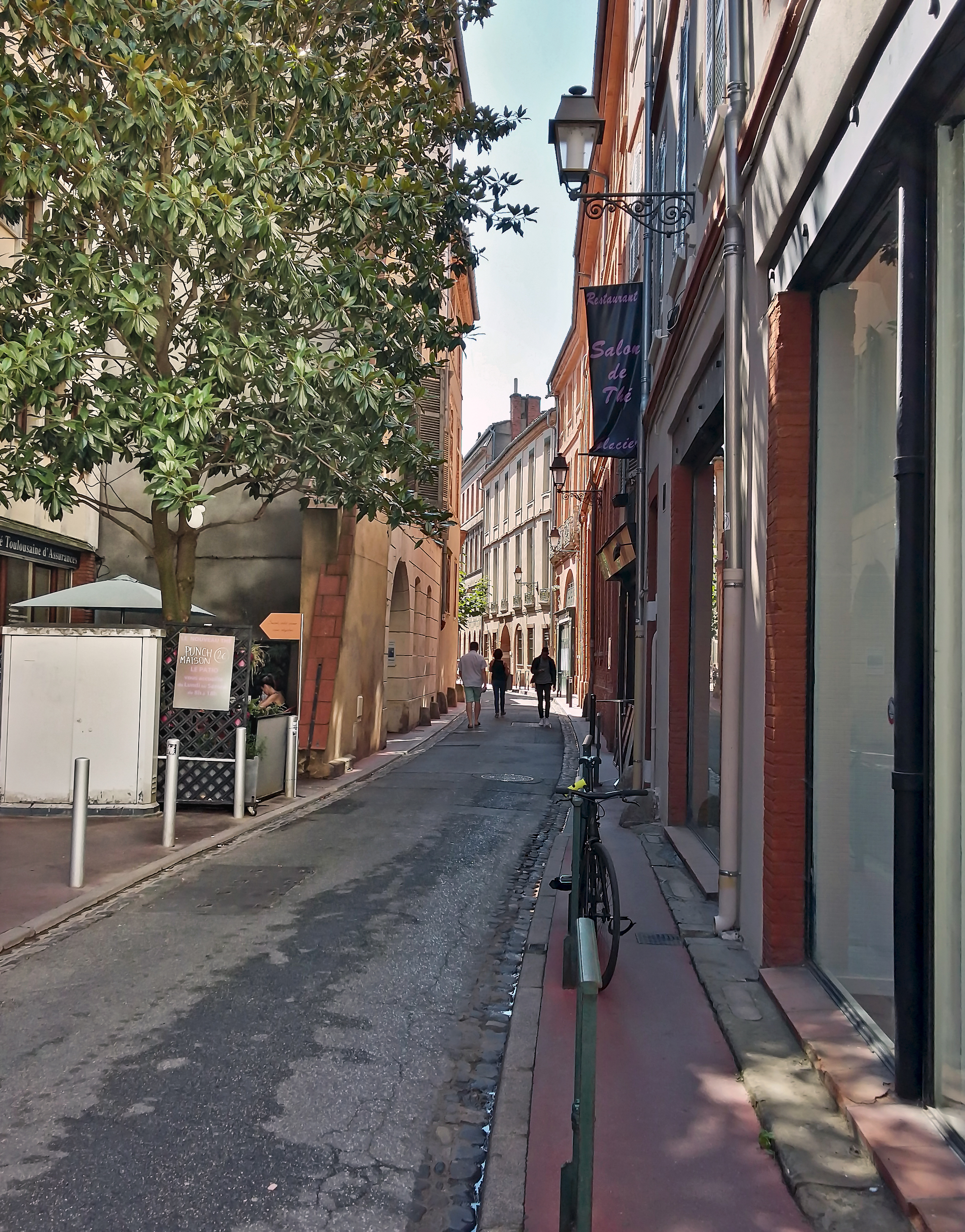 Rue Tolosanein Toulouse. The end of the street, seen from the rue Croix Baragnon.